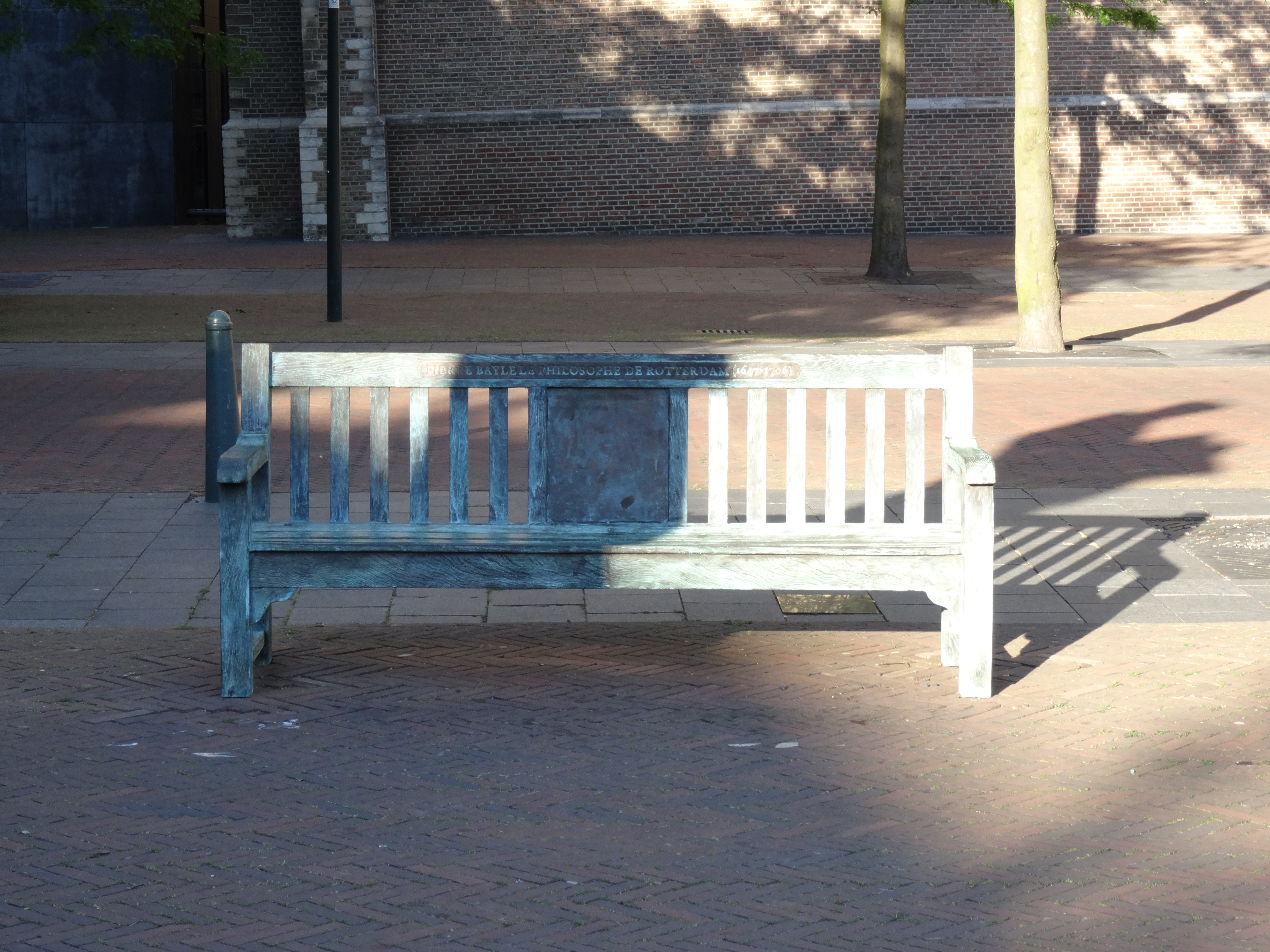 Street bench - Grotekerkplein - Stadsdriehoek - Rotterdam